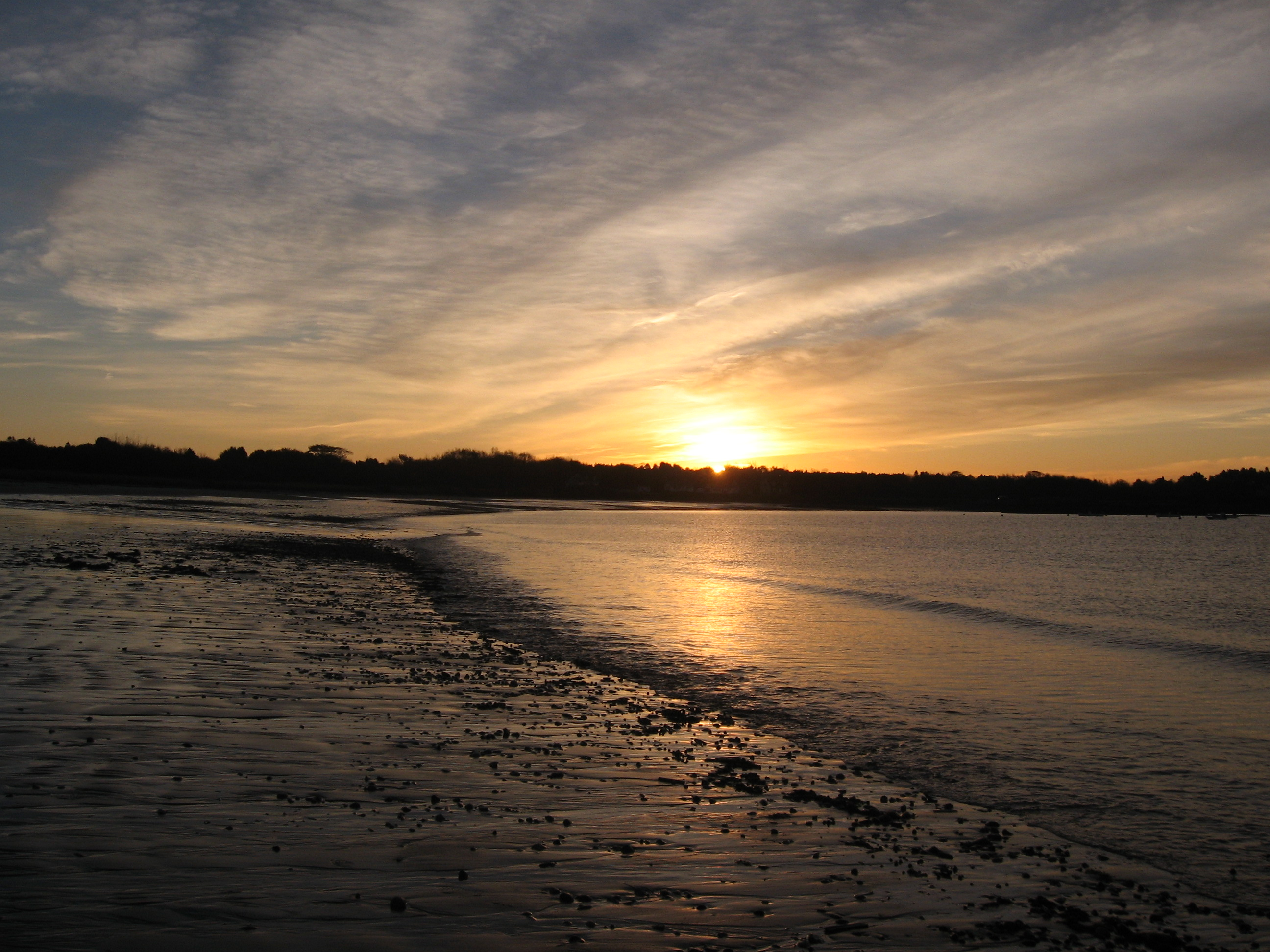 Sunrise, Cape Elizabeth, Maine